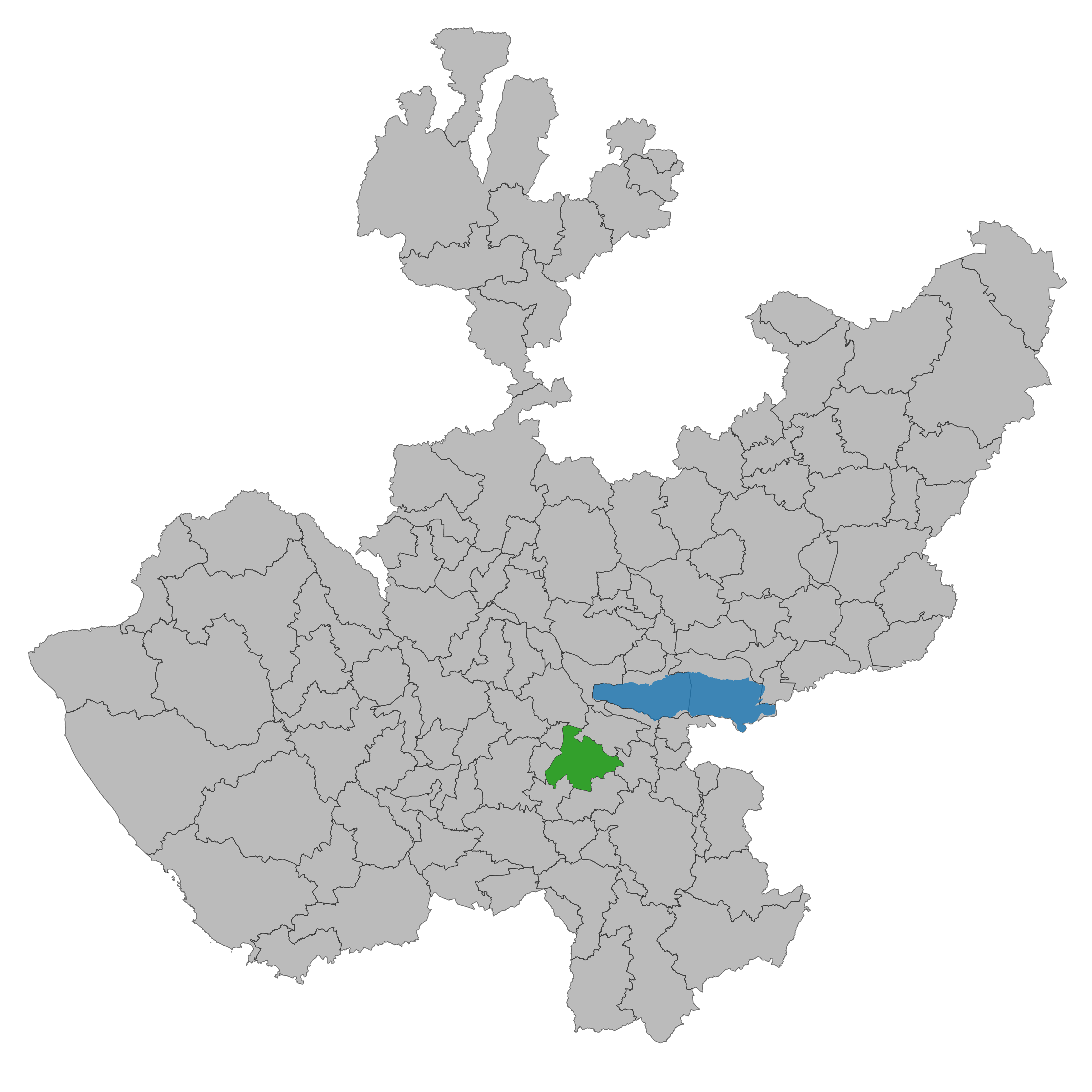 Municipality of Jalisco. Prepared with the software QGIS version 2.8.2 Wien & with information of SCINCE 2010 version 05/2013